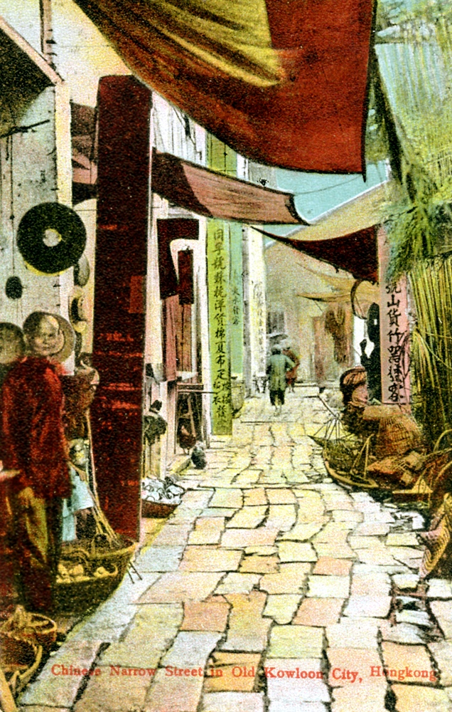 A popular market in Hong Kong once existed in Kowloon City, near the Kowloon Walled City